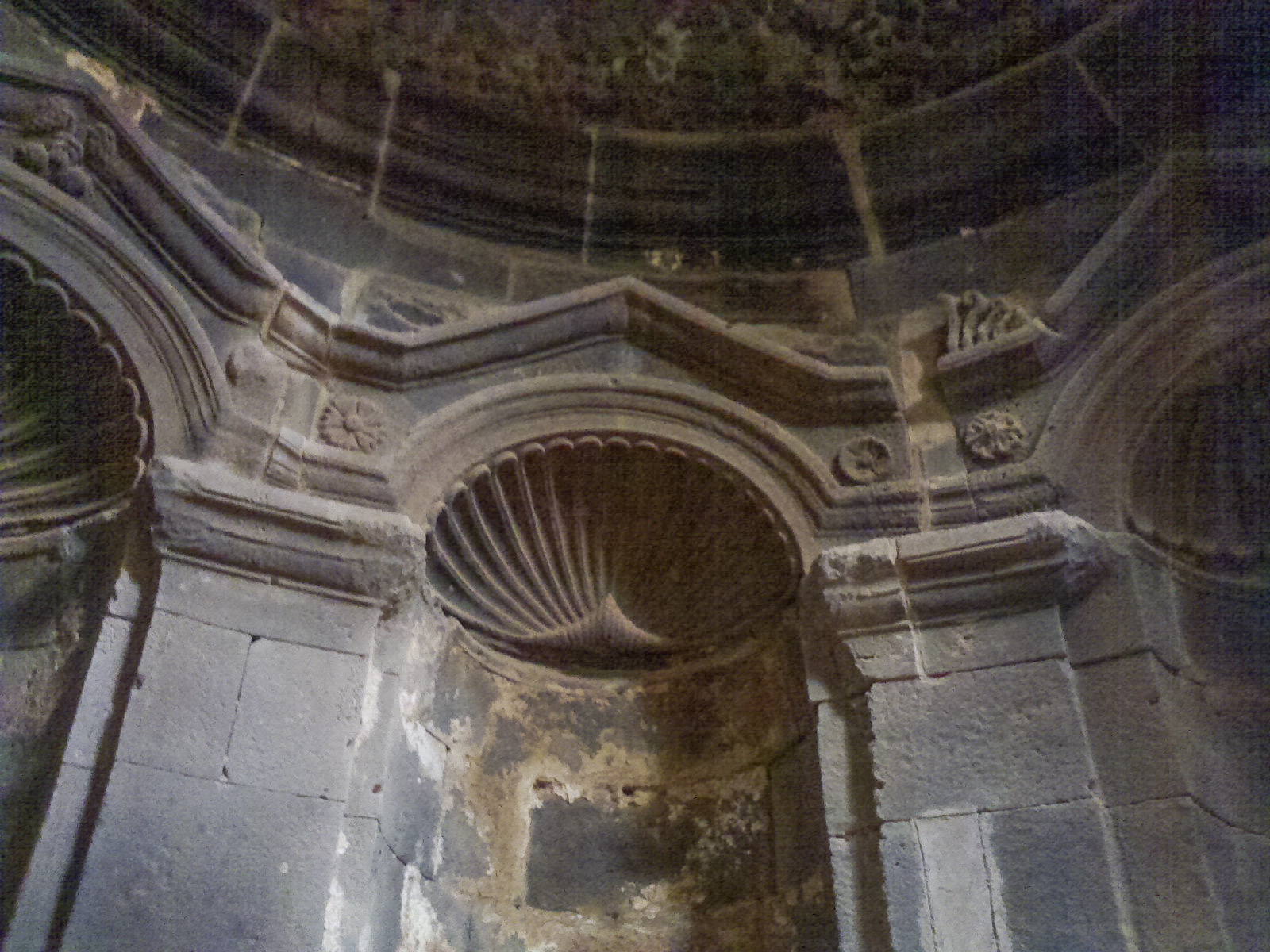 Inside ancient house in the Nabatean city Bosra.